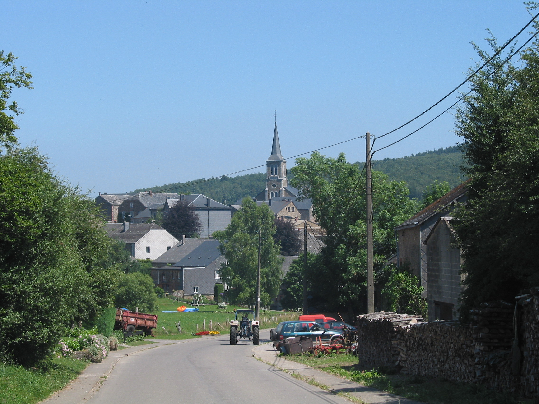 Gembes (Belgium) : neighborhood of Our Lady of the Assumption's Church (1878-1879).